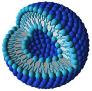 Image of a liposome